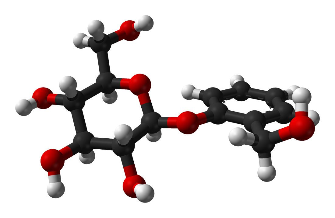 Ball-and-stick model of the salicin molecule, C13H18O7, from the crystal structure. Crystal structure by X-ray diffraction from Acta Cryst. (1984). C40, 1726-1728. Model constructed in CrystalMaker 8.1. Image generated in Accelrys DS Visualizer.